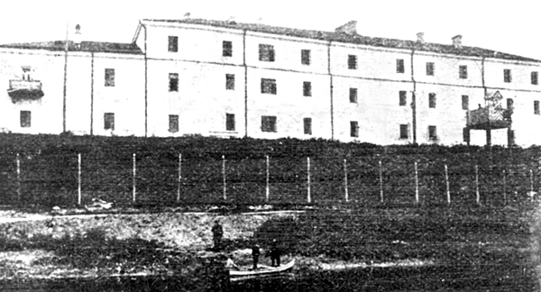 Prison (Bridgettines monastery) in Lutsk